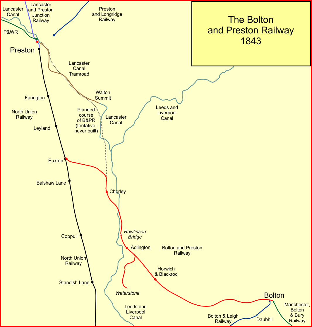 System map of the Bolton and Preston Railway, Lancashire, England, in 1843